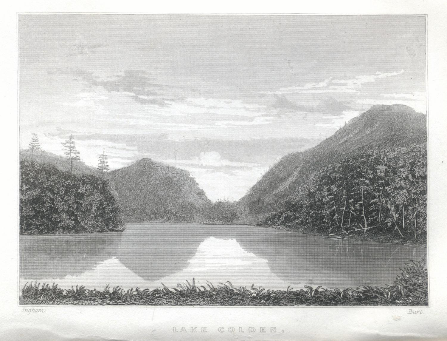 Source: "The Adirondack; or Life in the Woods" by Joel T. Headley. url: fair use rationale: Public Domain and permission from photographer.